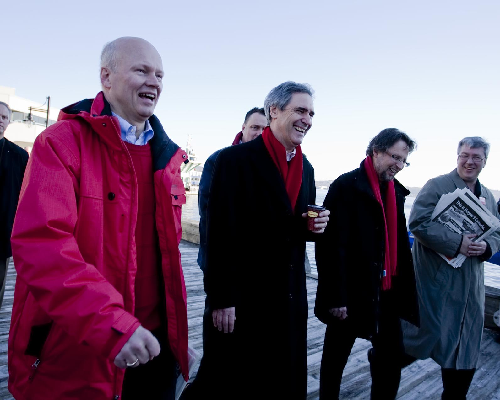 April 4, 2011: Liberal Leader Michael Ignatieff with Geoff Regan, Stan Kutcher and Scott Hemming greet commuters at the Halifax Ferry Terminal. Photo: Georges Alexandar 4 avril 2011: Le chef libéral Michael Ignatieff et son équipe à la gare maritime de Halifax.